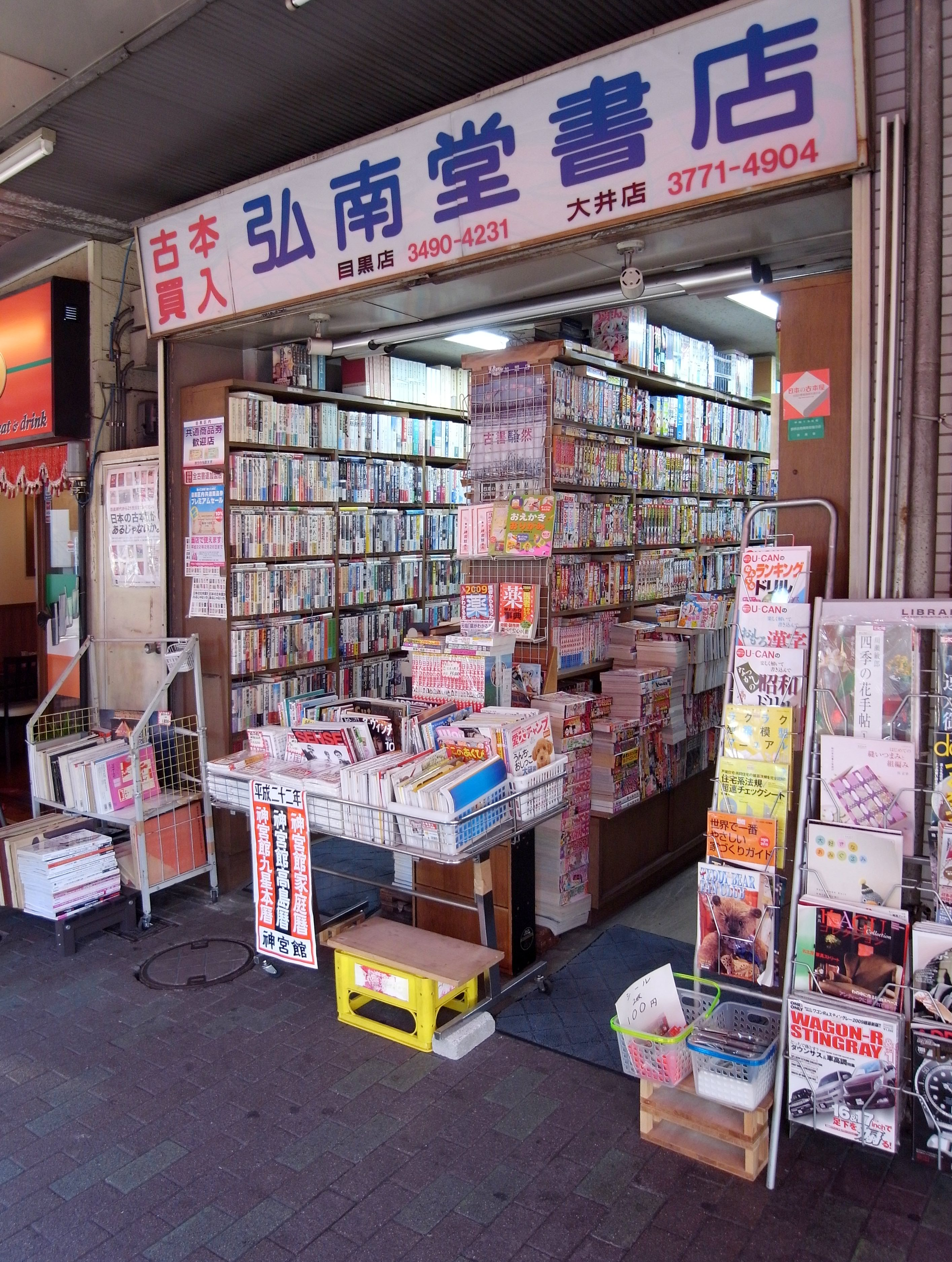 Used bookshop in Meguro (Tokyo)